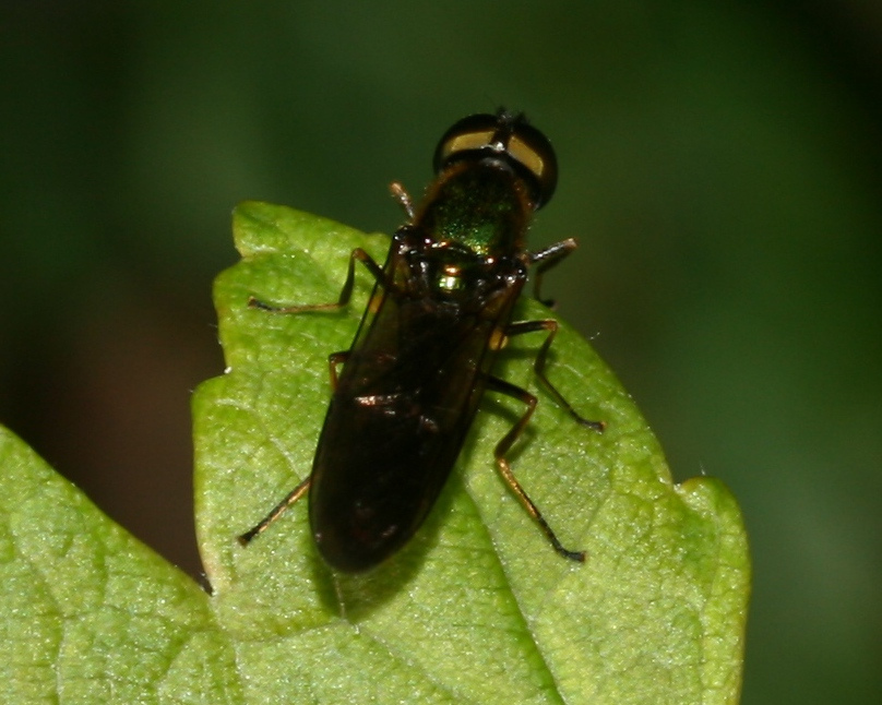 Armet Forest, Gilston, Scottish Borders.